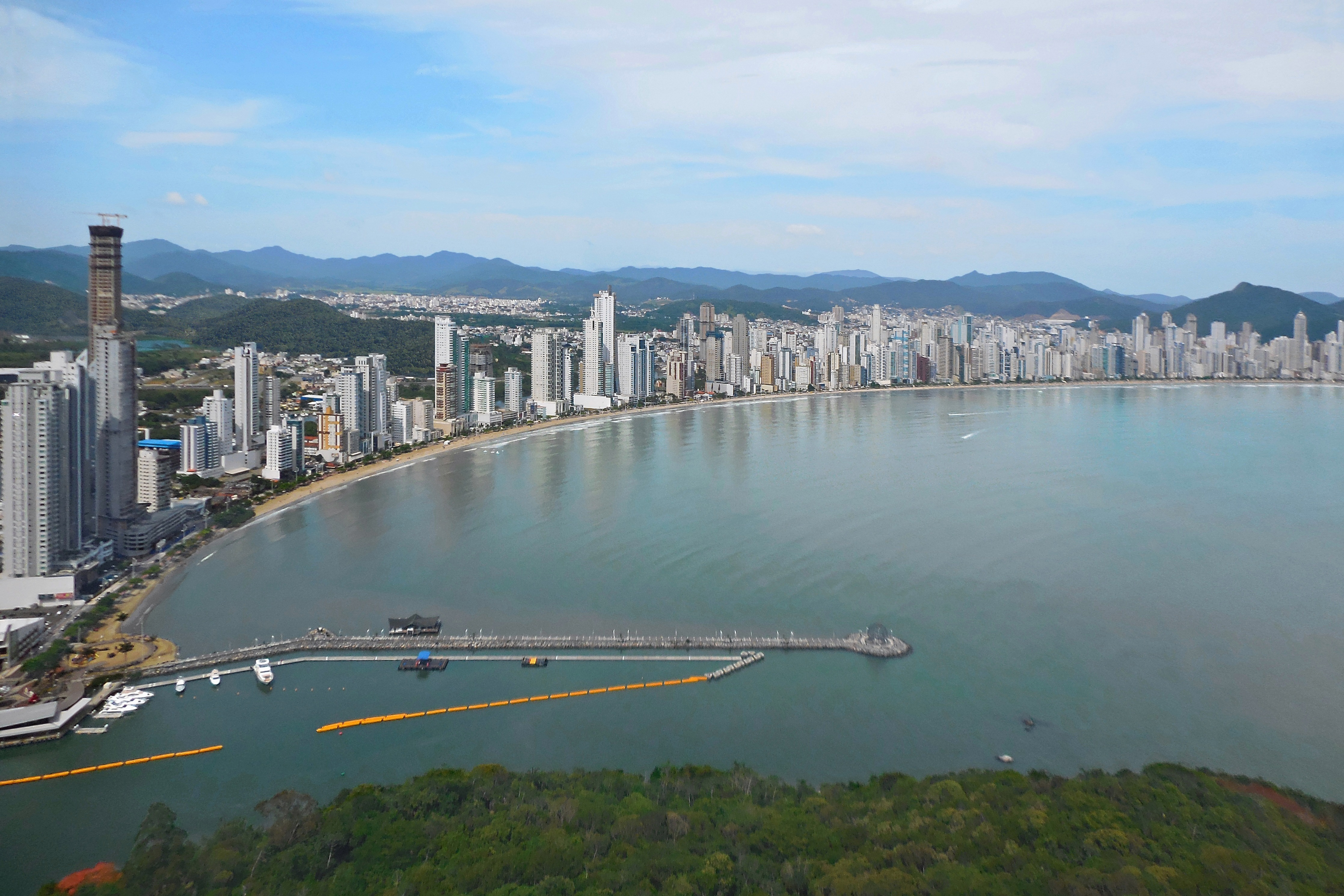 Partial view of Balneário Camboriú, Santa Catarina, Brazil, seen from of the Unipraias park.